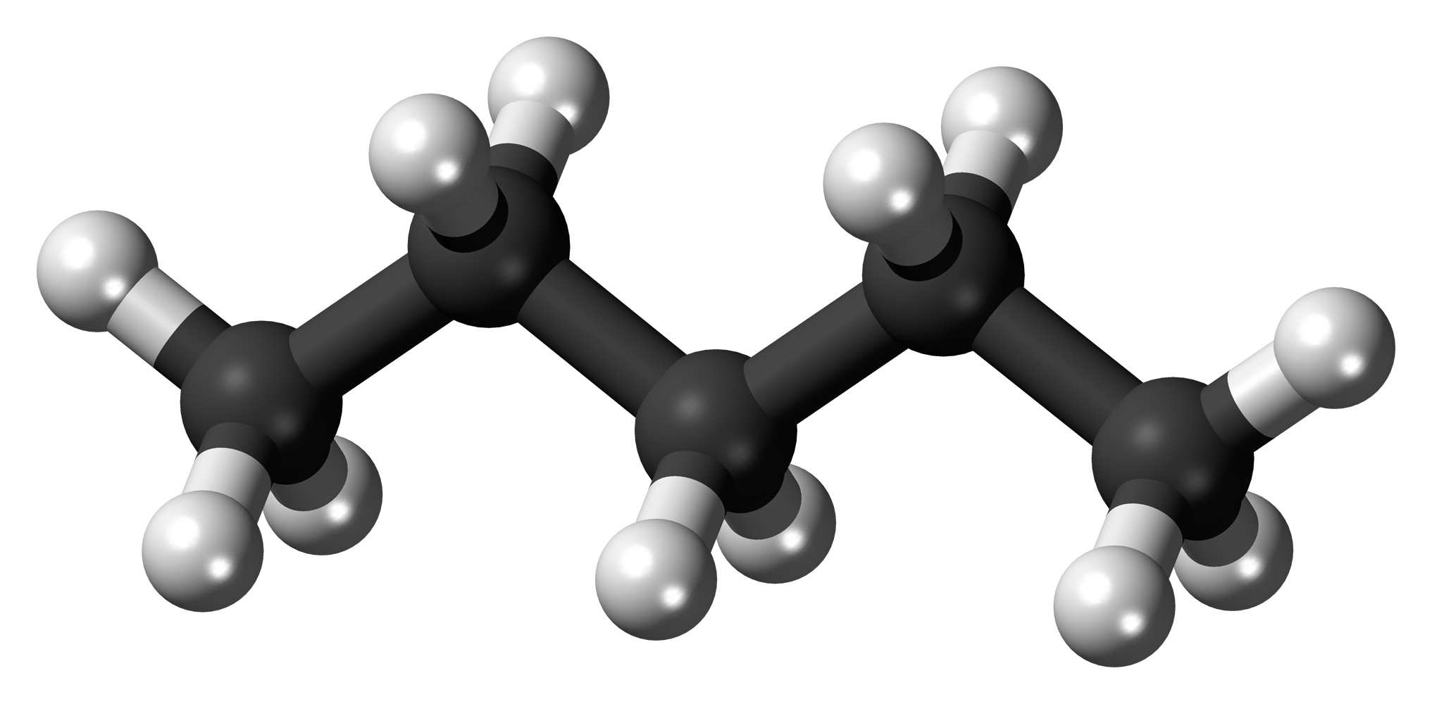 Ball-and-stick model of the pentane molecule, an alkane used as a fuel and a solvent. Colour code: Carbon, C: black Hydrogen, H: white